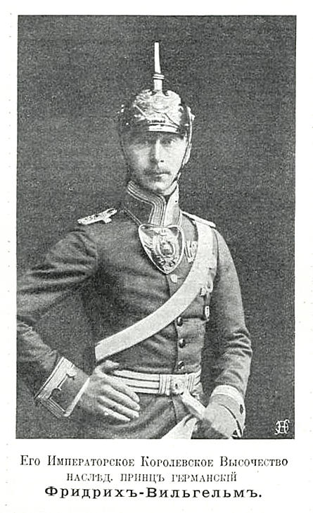 William, German Crown Prince